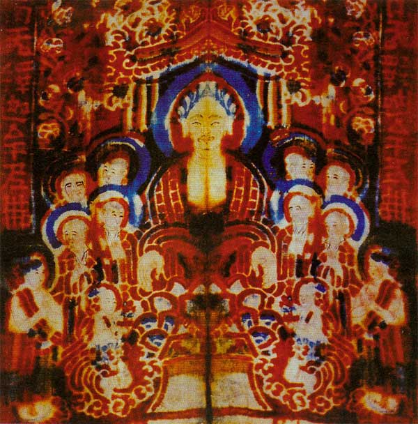 10th centuary woodcut Buddha, Shanxi, China